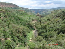 A view of Hell's Gate National Park